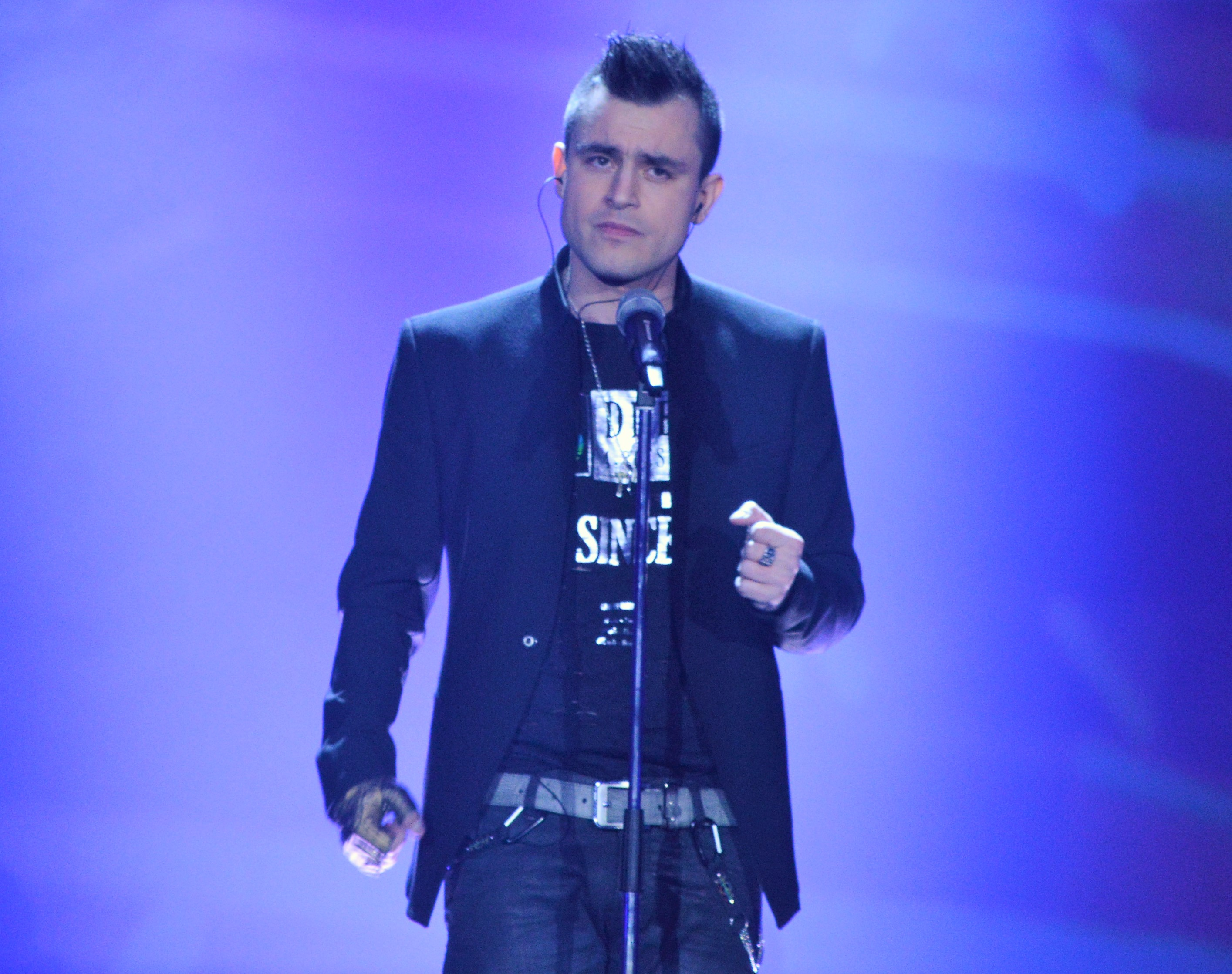 The Slovenian EMA 2017 participant and winner: Omar Naber